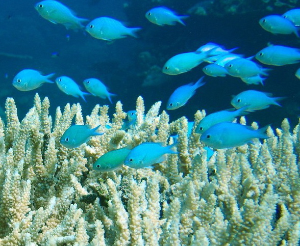 Green Pullers (Chromis viridis, see in fishbase) shelter among branching Acropora sp. coral. "No Name", Ribbon Reefs, Coral Sea